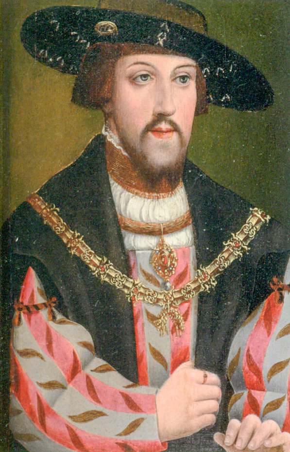 Portrait of King Louis II of Hungary (1506-1526)